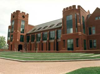 The William Smith Morton Library is the center of activity and the source of much pride for students at Union Presbyterian Seminary.